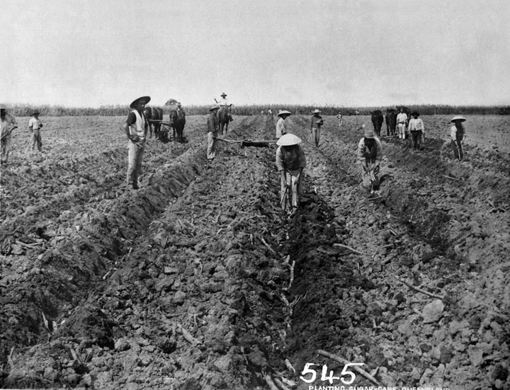 Chinese canegrowers planting sugar cane near Cairns. (Caption references Hop Wah plantation, may also be Hambledon. The Hop Wah syndicate consisted of Chinese workers who grew cane, cotton and other crops on a plantation of 600 acres selected by Andrew Leon, a prominent Chinese business man.)